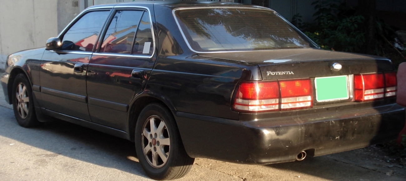 Kia New Potentia